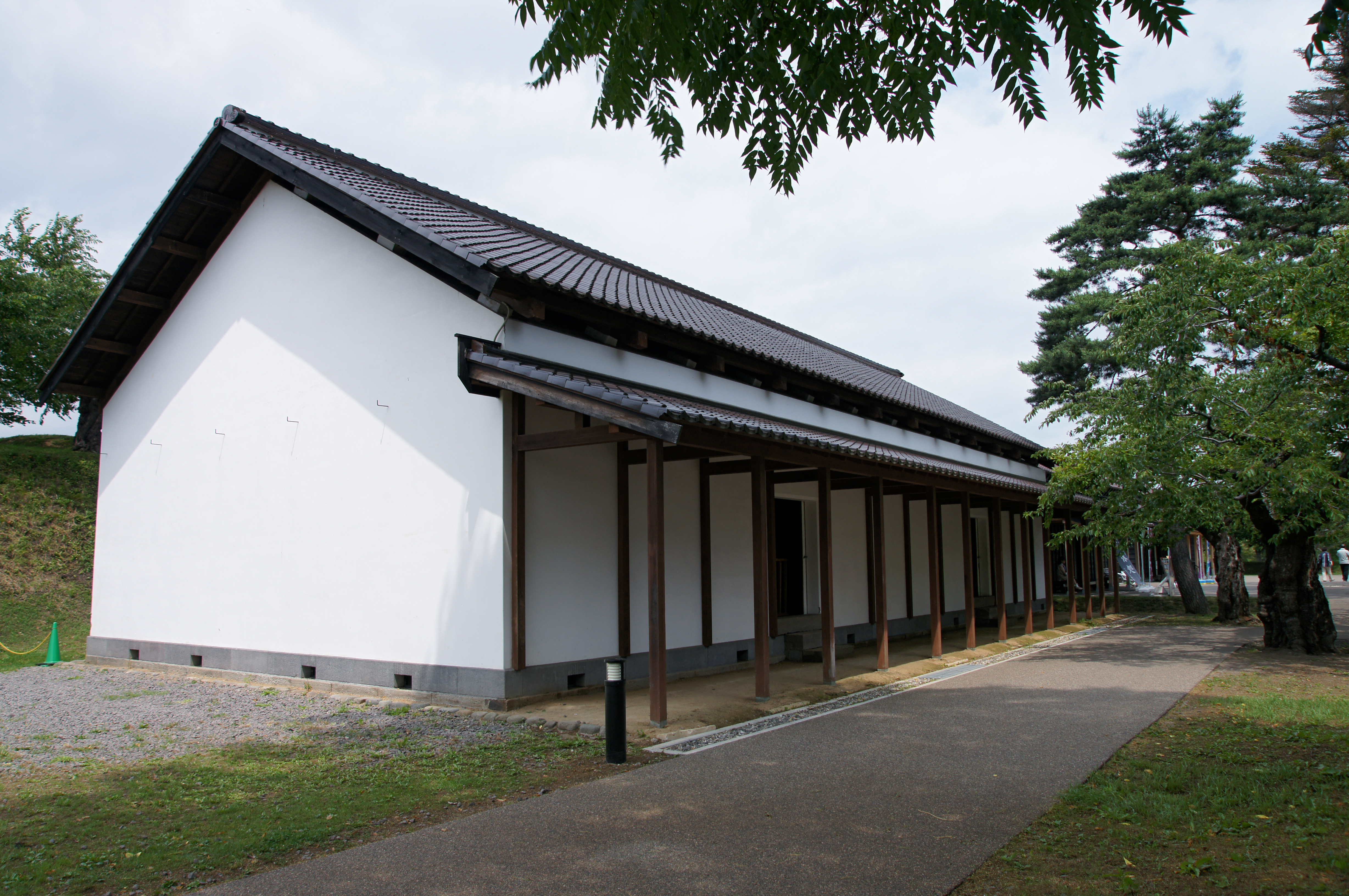 Hakodate Magistrate's Office in Hakodate, Hokkaido prefecture, Japan